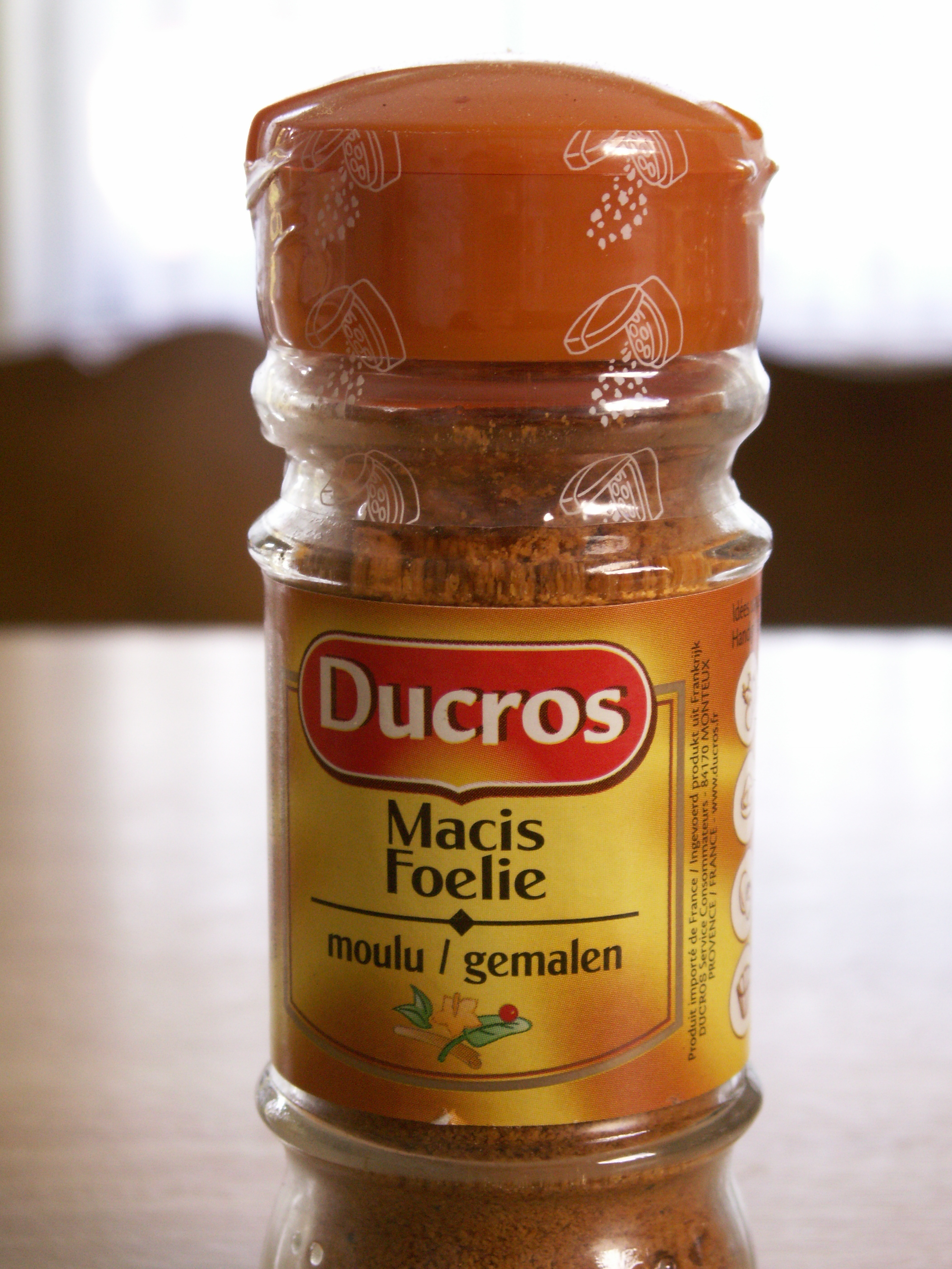 Commercially packaged nutmeg